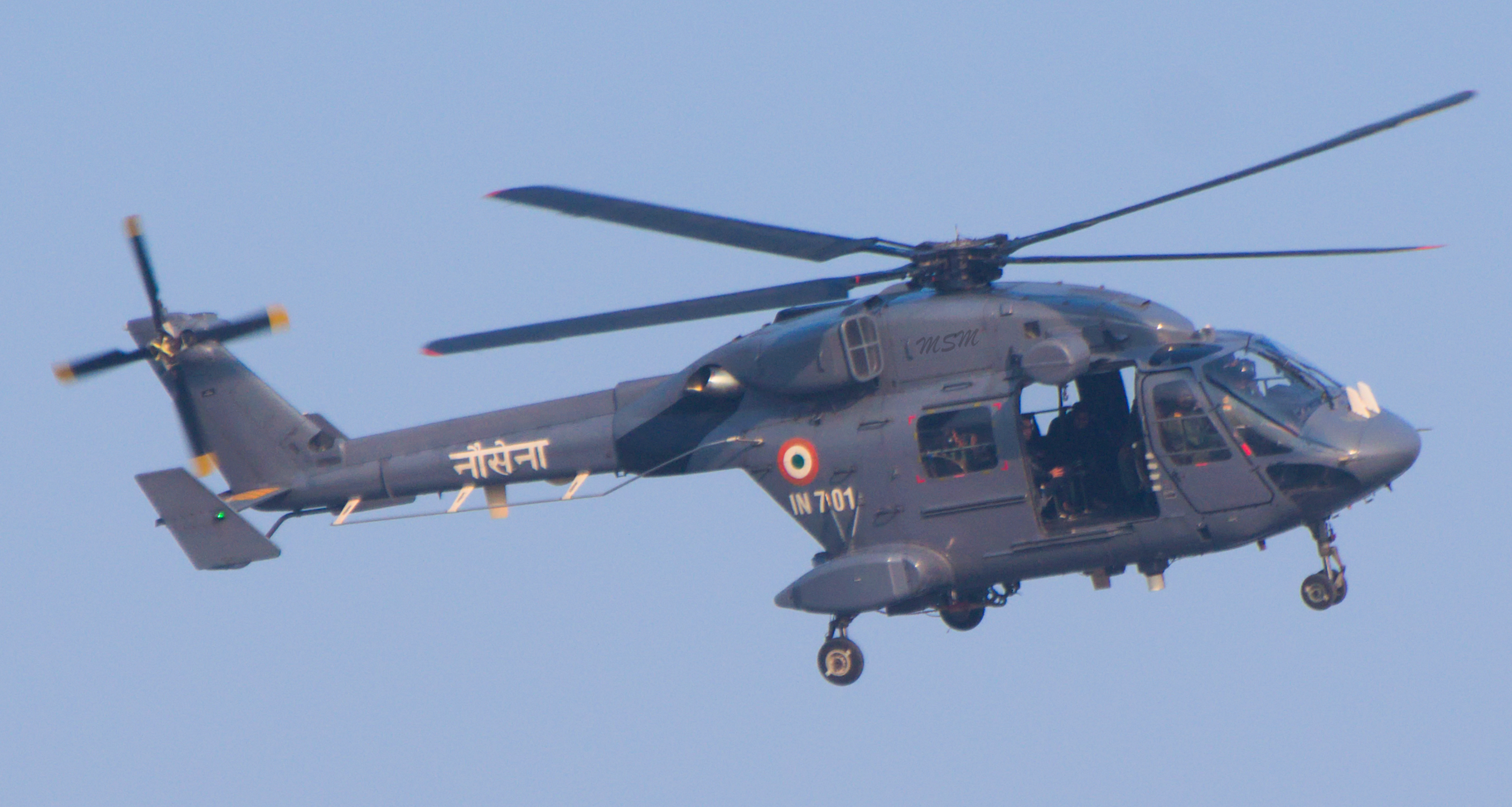 Dhruv Helicopter of the Indian Navy